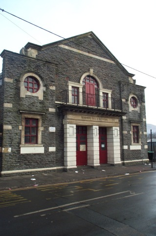 Abercwmboi Workmen's Hall and Institute, in Cynon Valley, South Wales, UK